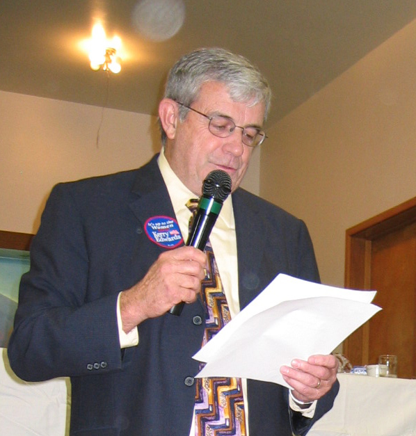 William D. Russell addressing a meeting of the John Whitmer Historical Association in Council Bluffs, Iowa, in 2004.